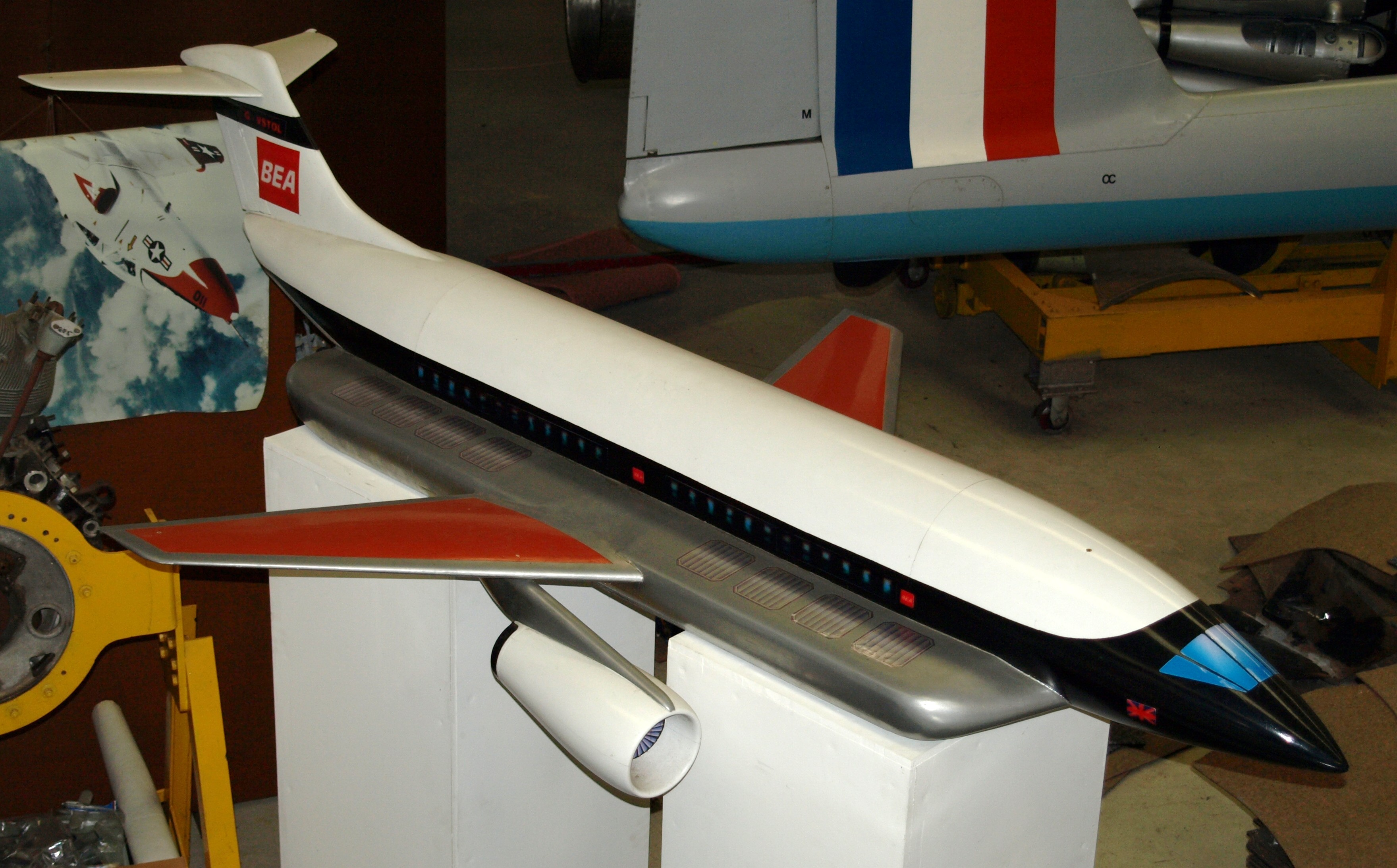 Manufacturer's promotional model of the Hawker Siddeley HS.141 airliner project in British European Airways livery. Displayed at the Midland Air Museum.